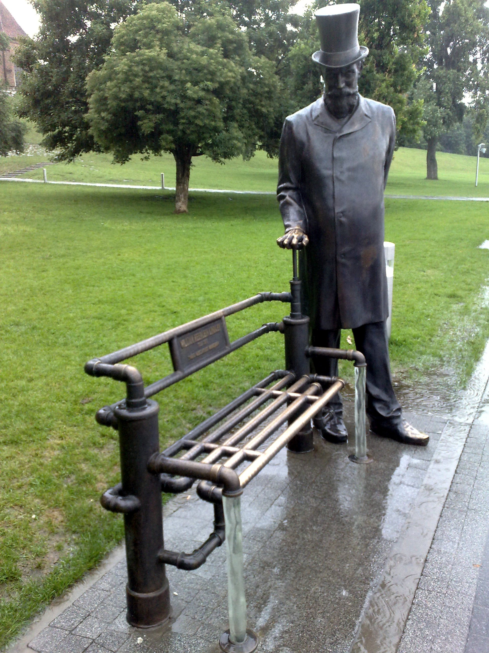 William Heerlein Lindley's bench -- steampunk monument in Warsaw.